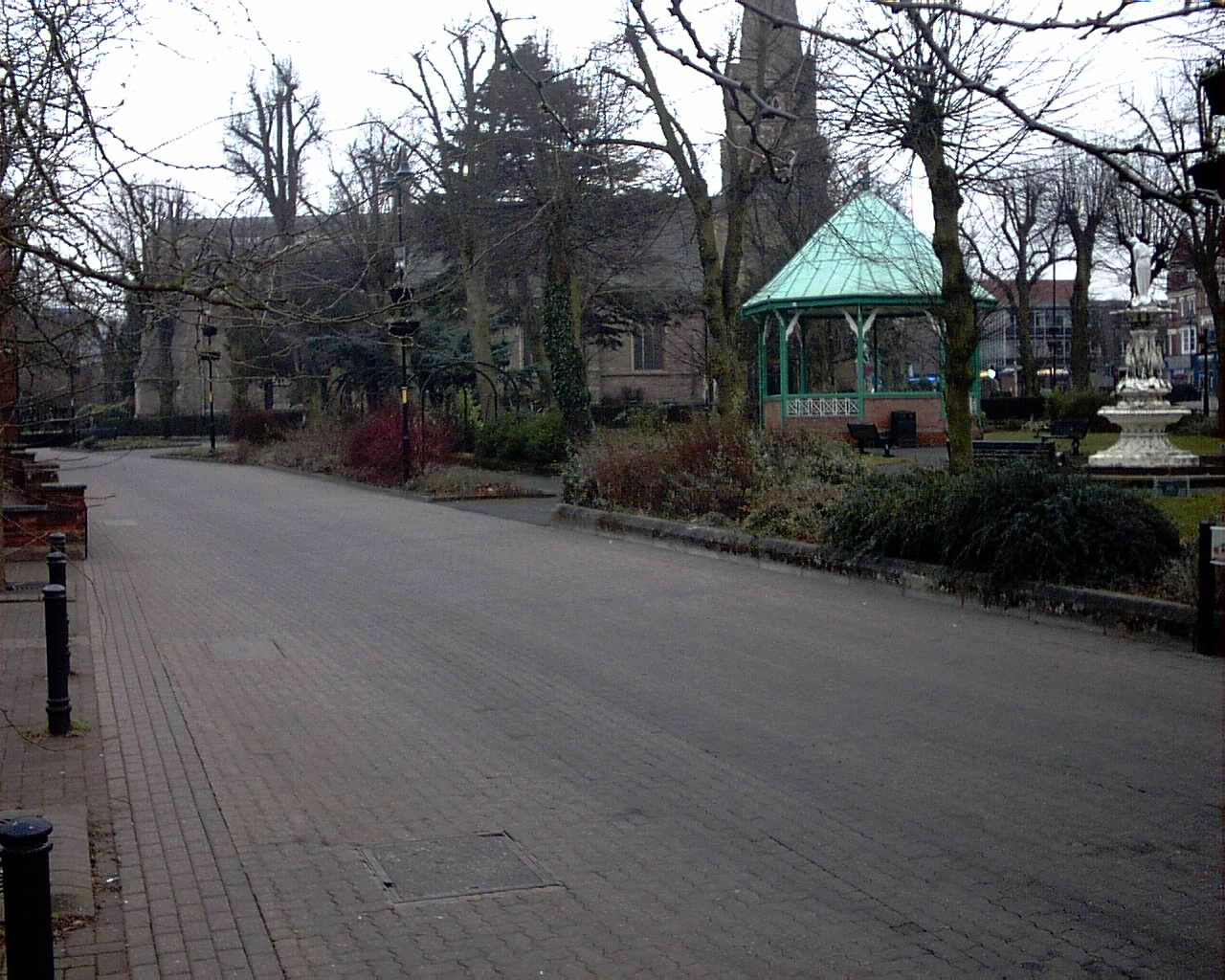 Church Green and St Phillips Church on a Winter's day